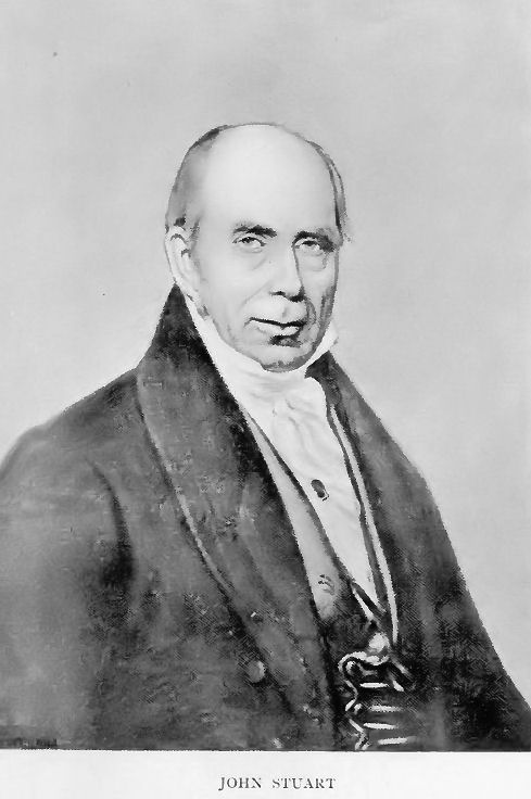 Book published in 1902 in Canada